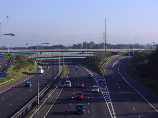 Motorway This is the M6 motorway at Junction 29 - Bamber Bridge.